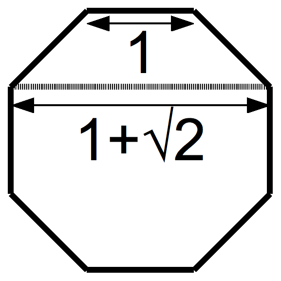 Relationship between the silver ratio and the octagon.